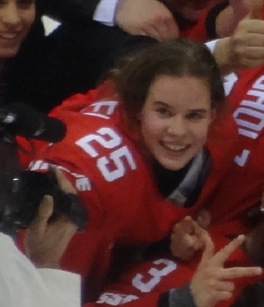 Alina Müller (born March 12, 1998) is a Swiss ice hockey forward who plays internationally for the Switzerland women's national ice hockey team. She has represented Switzerland at the Winter Olympics in 2014 and won the bronze medal after defeating Sweden in the bronze medal playoff.[1]